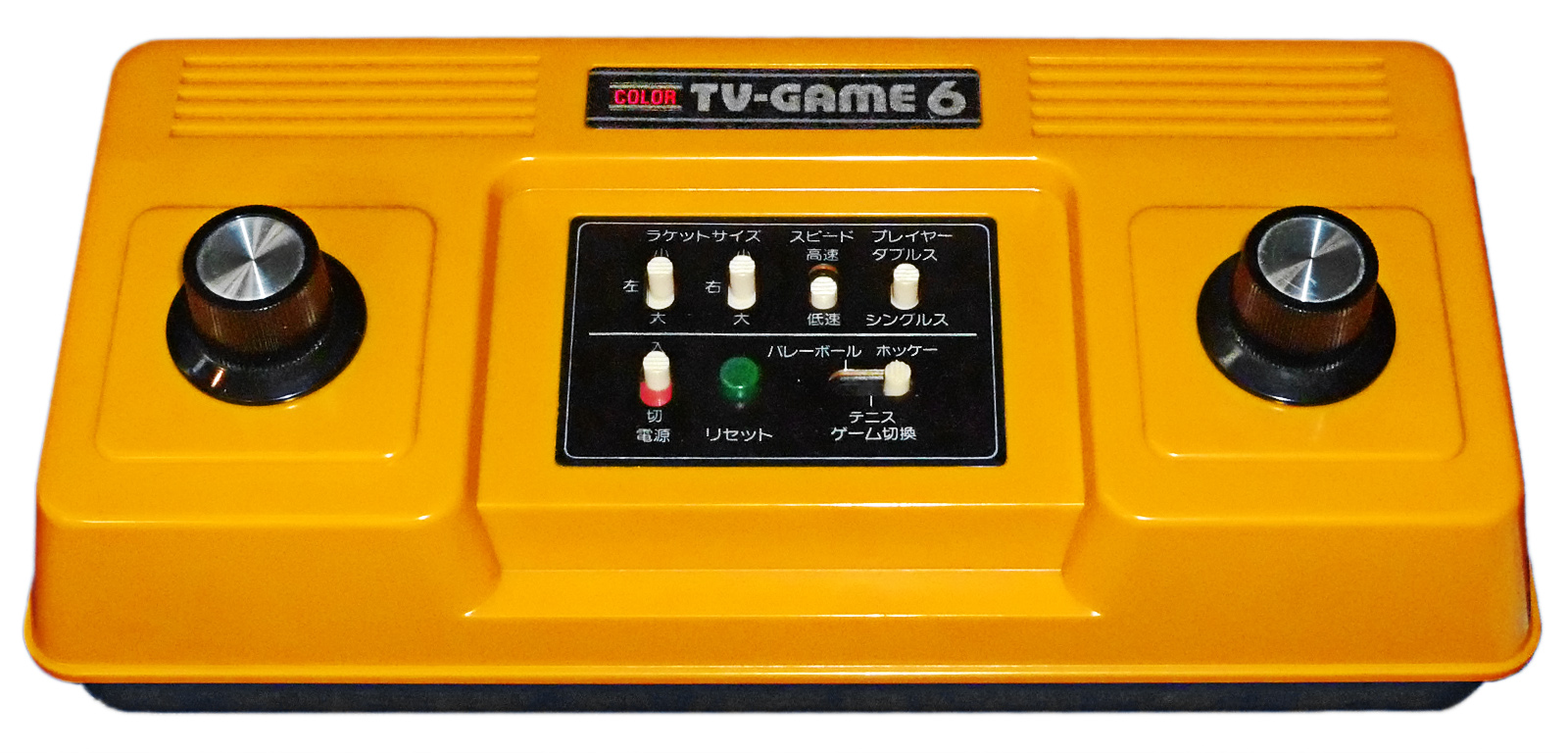 The first Nintendo console for tennis simulation Pong released in 1977